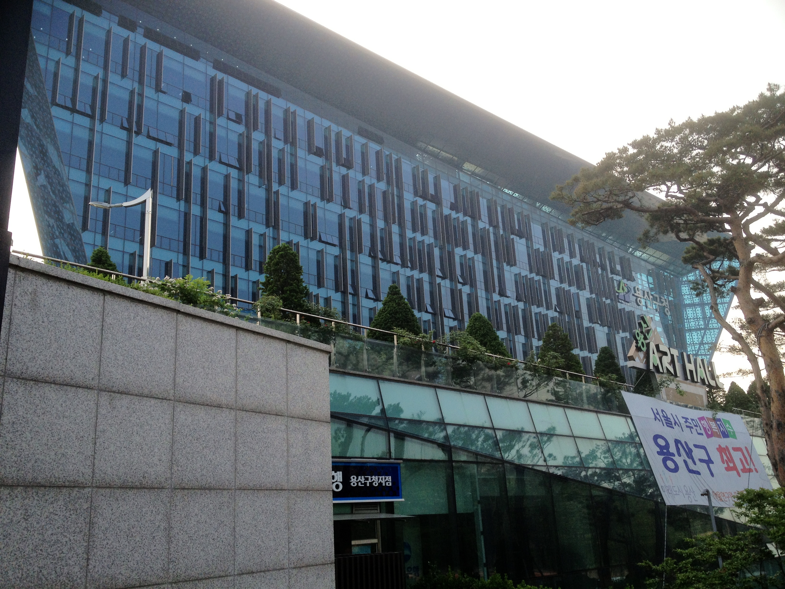 Yongsan-gu Office(Seoul Special City)